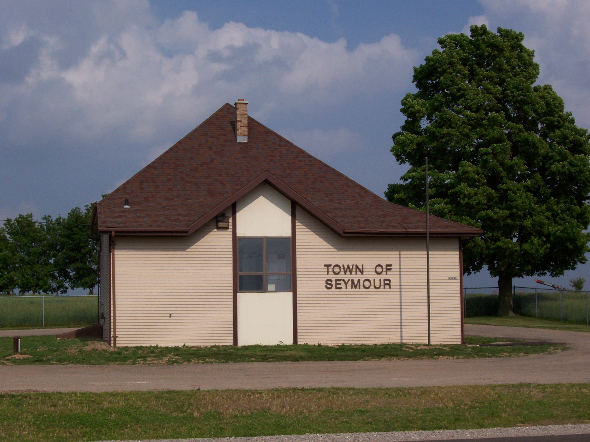 The townhall for the Town of Seymour in Outagamie County, Wisconsin, USA. Cropped from the original.